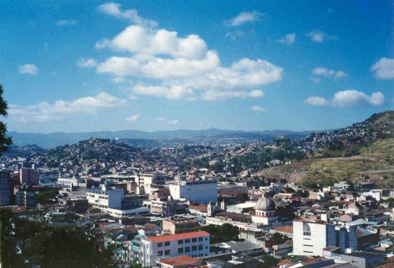 View over Tegucigalpa, Honduras, from La Leona hill. Taken from my balcony.